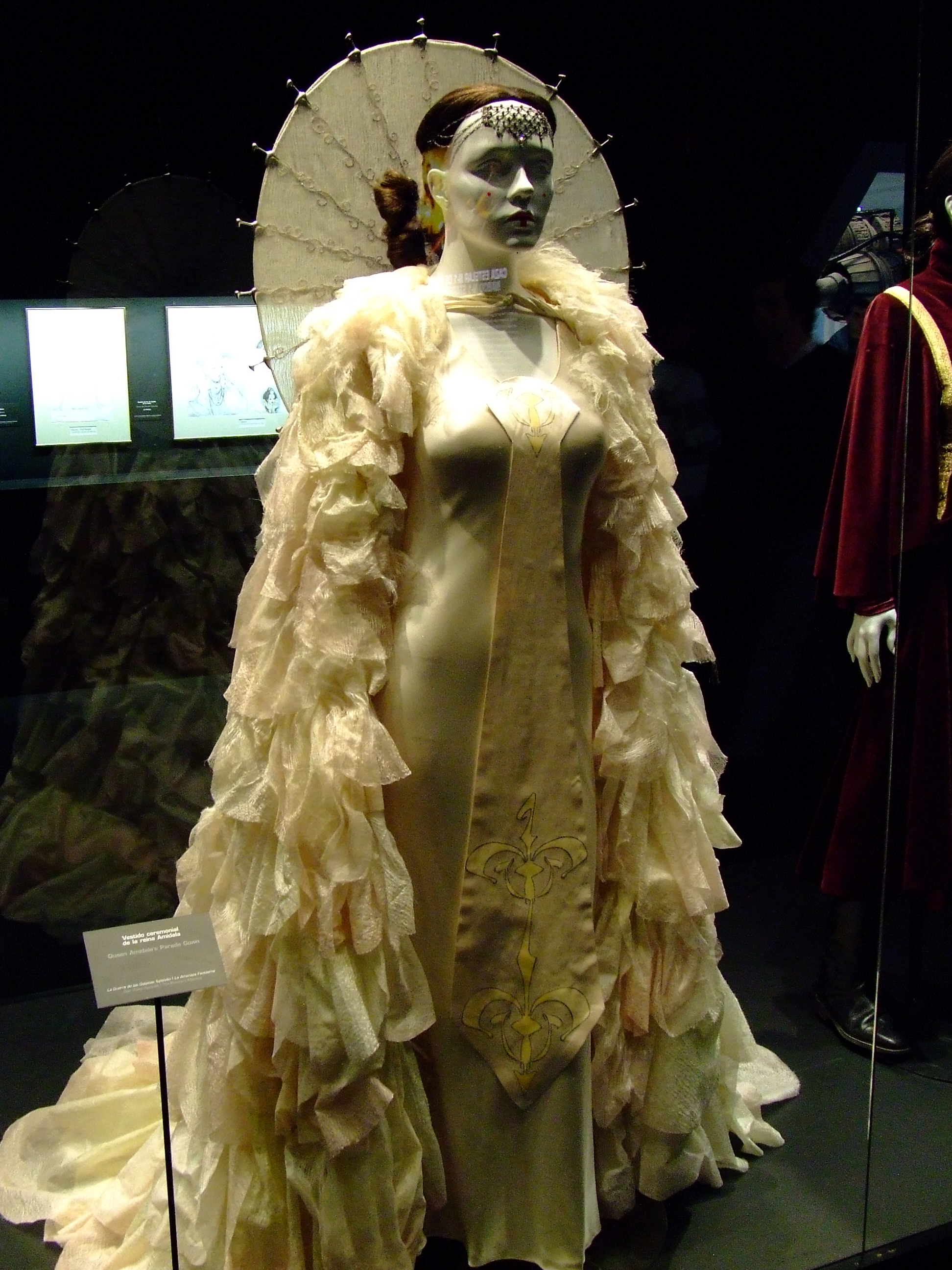 Queen Amidala's Parade Gown: taken at Star Wars — The Exhibition in Madrid, Spain